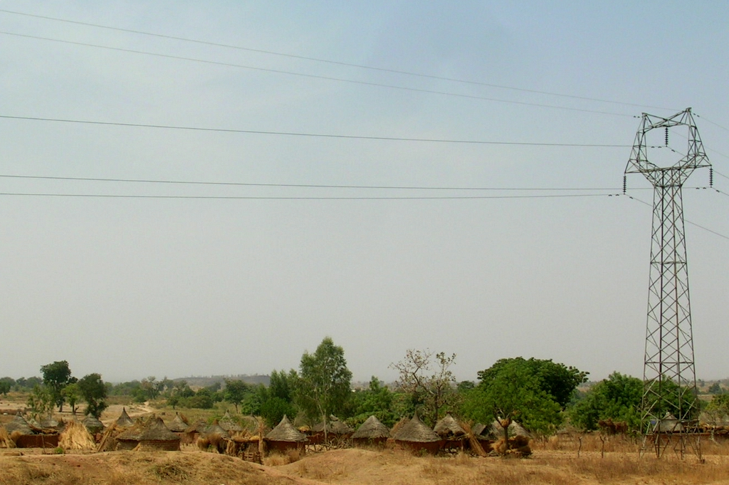 There is no electricity in Mafa Kilda (Cameroon), it's just passing by (and going from Ngong to Garoua)